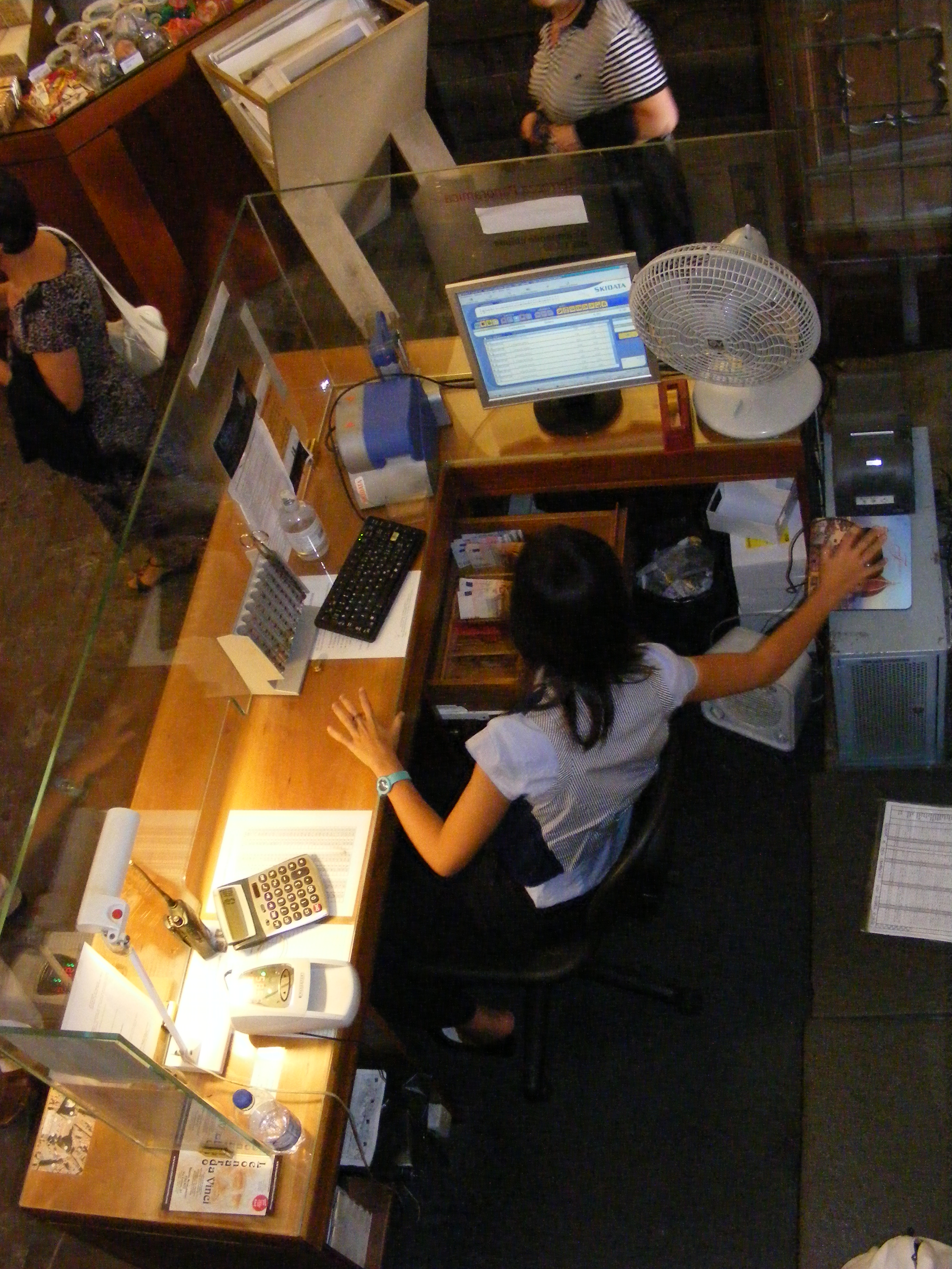 Giotto's Bell Tower, ground floor, cash desk